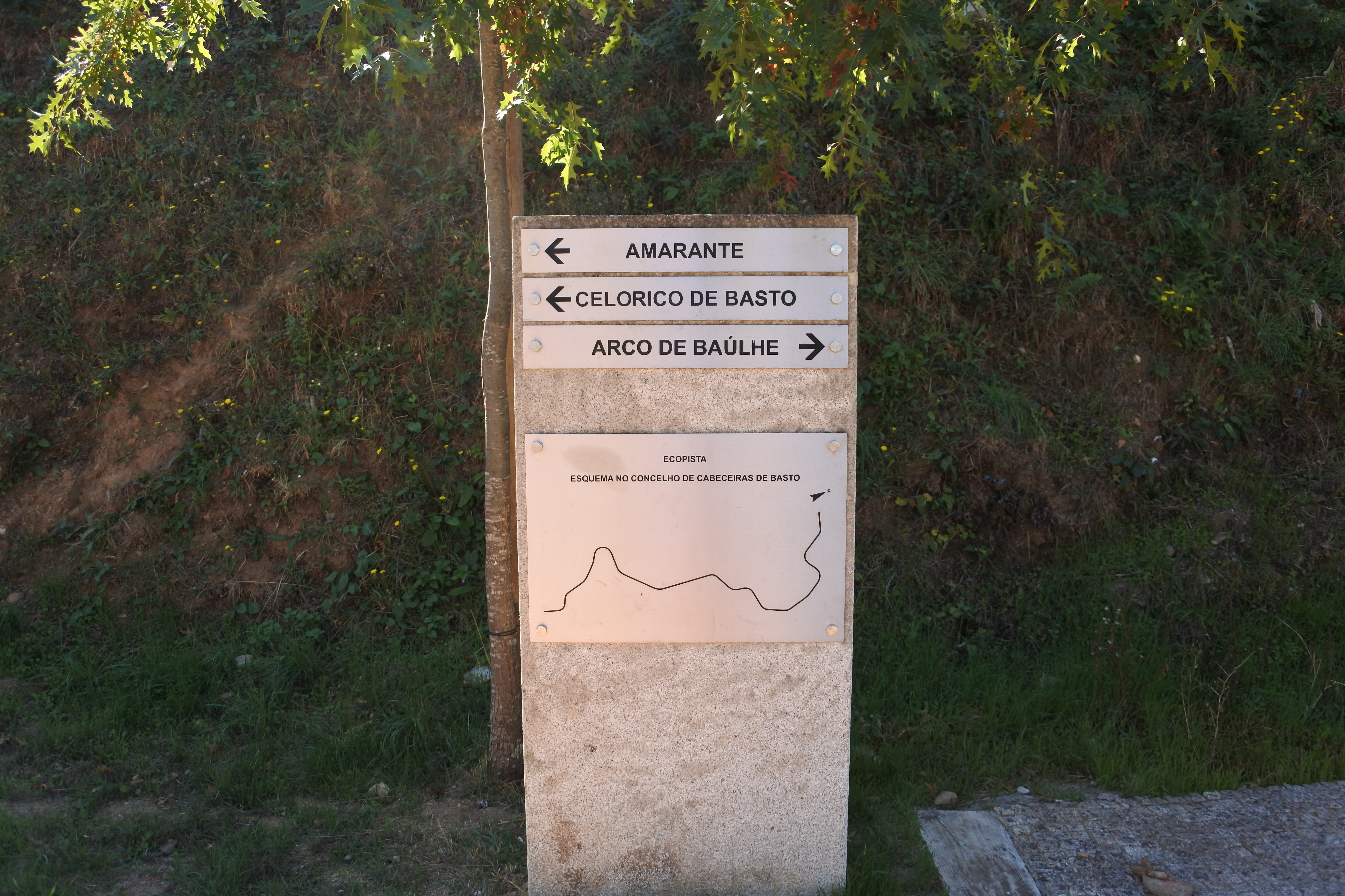 Old train station of Arco de Baúlhe, the start of Arco de Baúlhe - Amarante cyclepath, also known as "Tamega cyclepath", since it mostly follows the valley of the Tamega river.